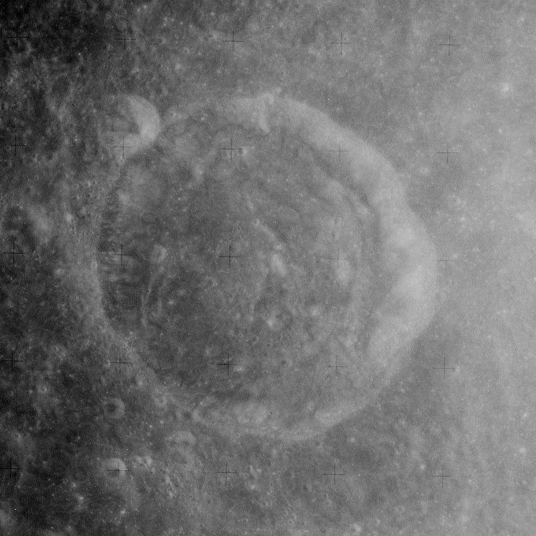 Glazenap, on the far side of the moon. Camera altitude 100 km, sun elevation 69 deg.